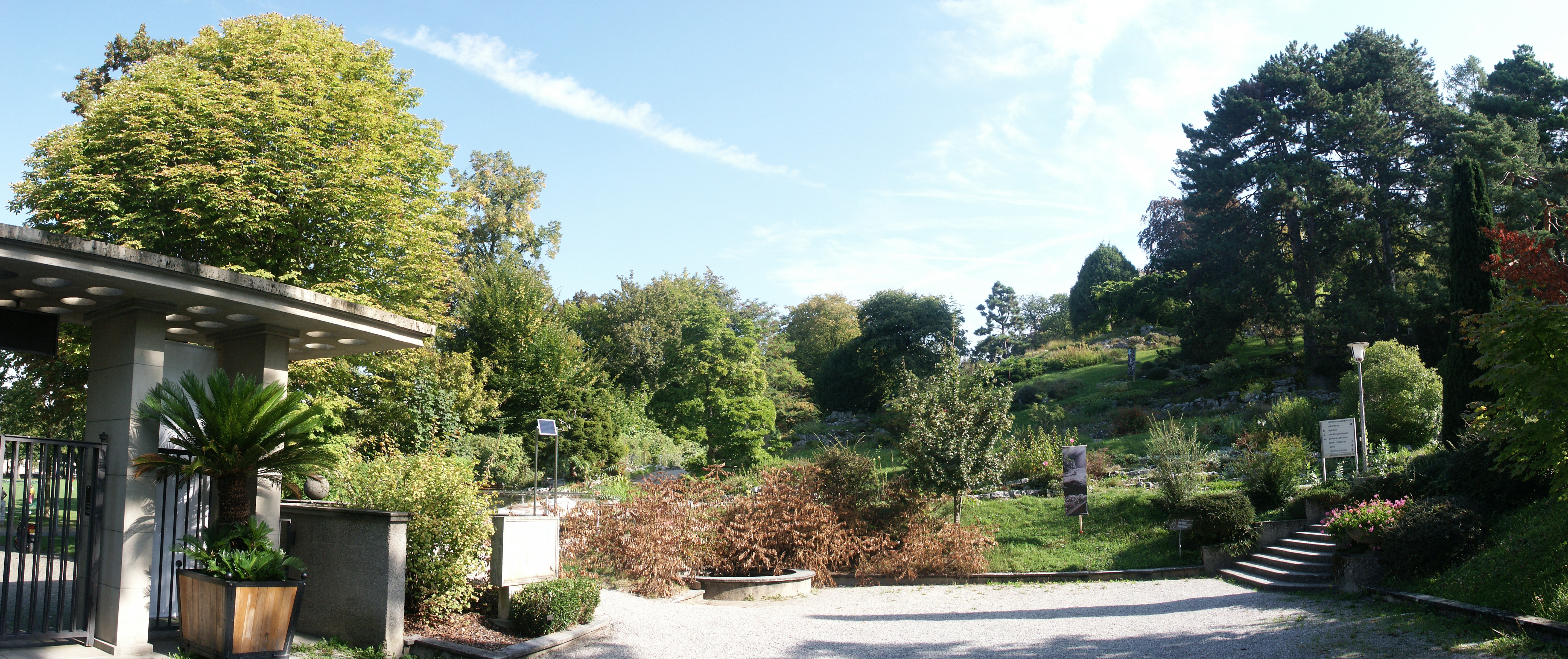 The Cantonal Botanical Gardens and Museum were established in 1824.